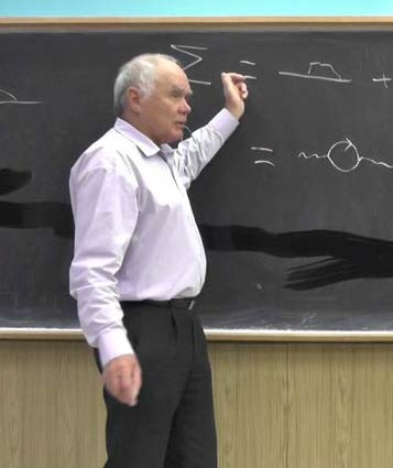 Victor Fadin lecturing QED in Budker Institute of Nuclear Physics, fall 2013